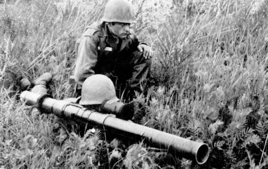 Armbrust